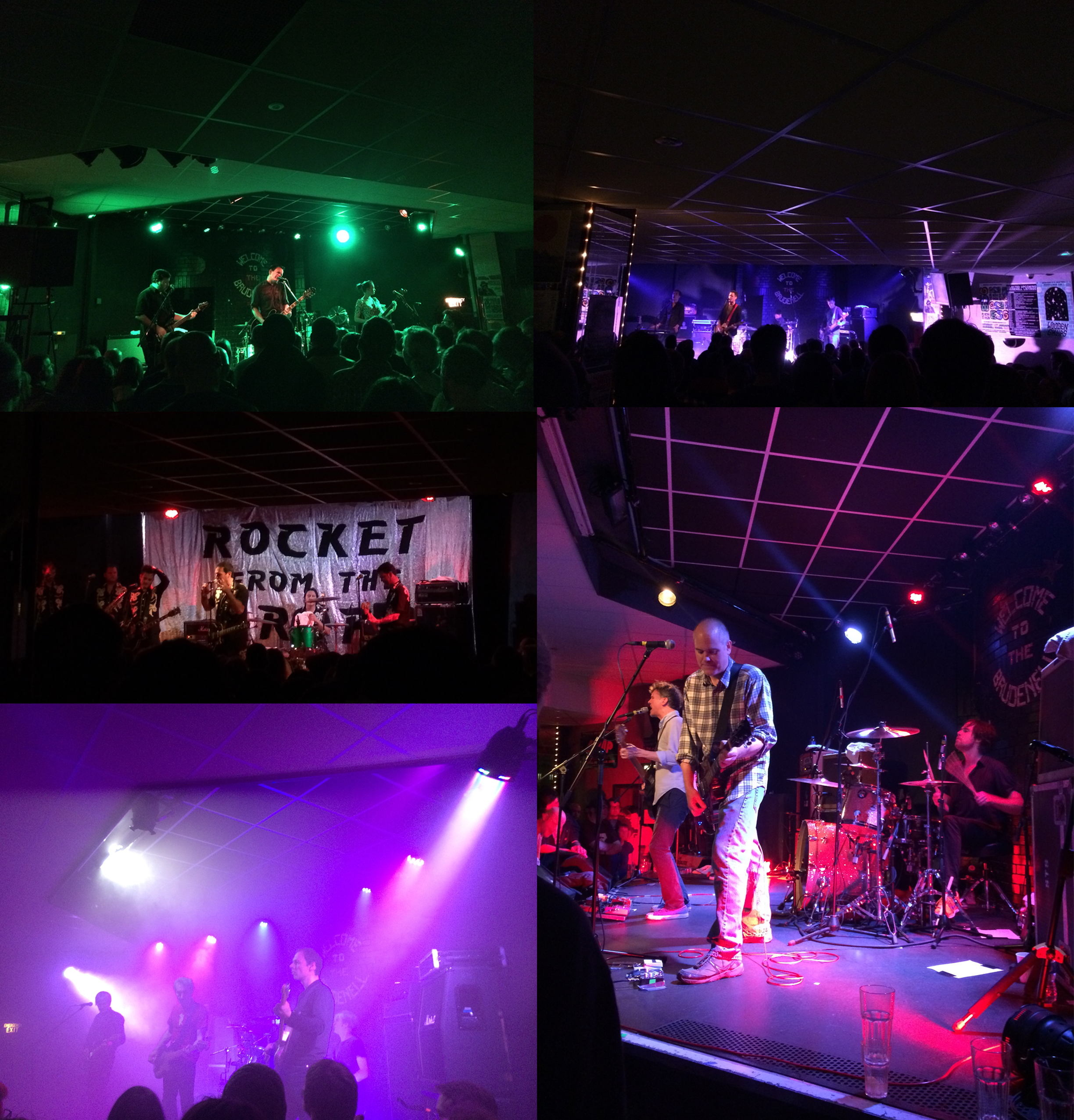 Gigs performed at the Brudenell Social Club, Leeds, in December 2013 as part of the venue's 100 year anniversary. Clockwise from top left: The Wedding Present, Girls Against Boys, Superchunk, Loop, Rocket From The Crypt